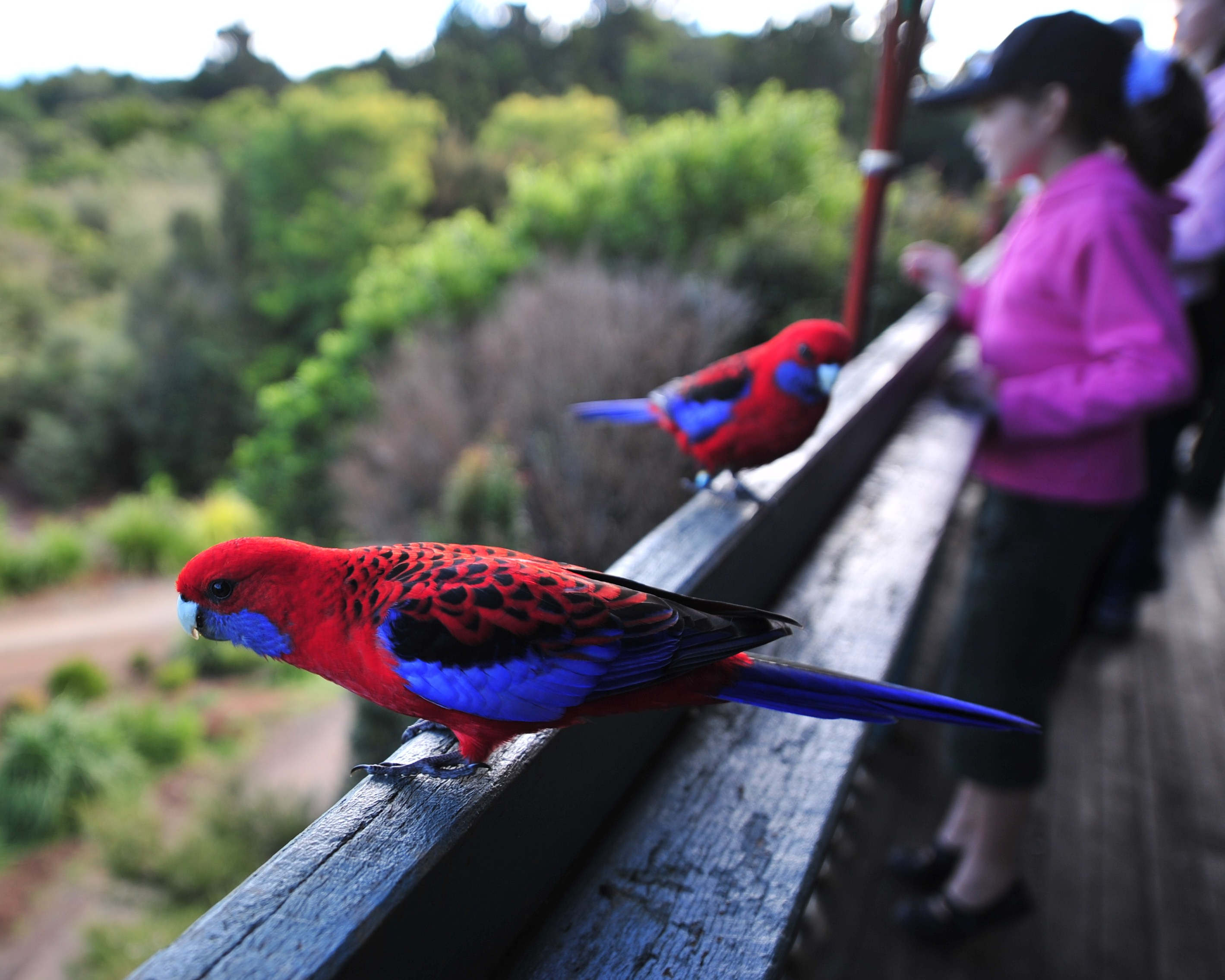 Crimson Rosellas at O'Reilly's Rainforest Retreat, Lamington National Park, Queensland, Australia.